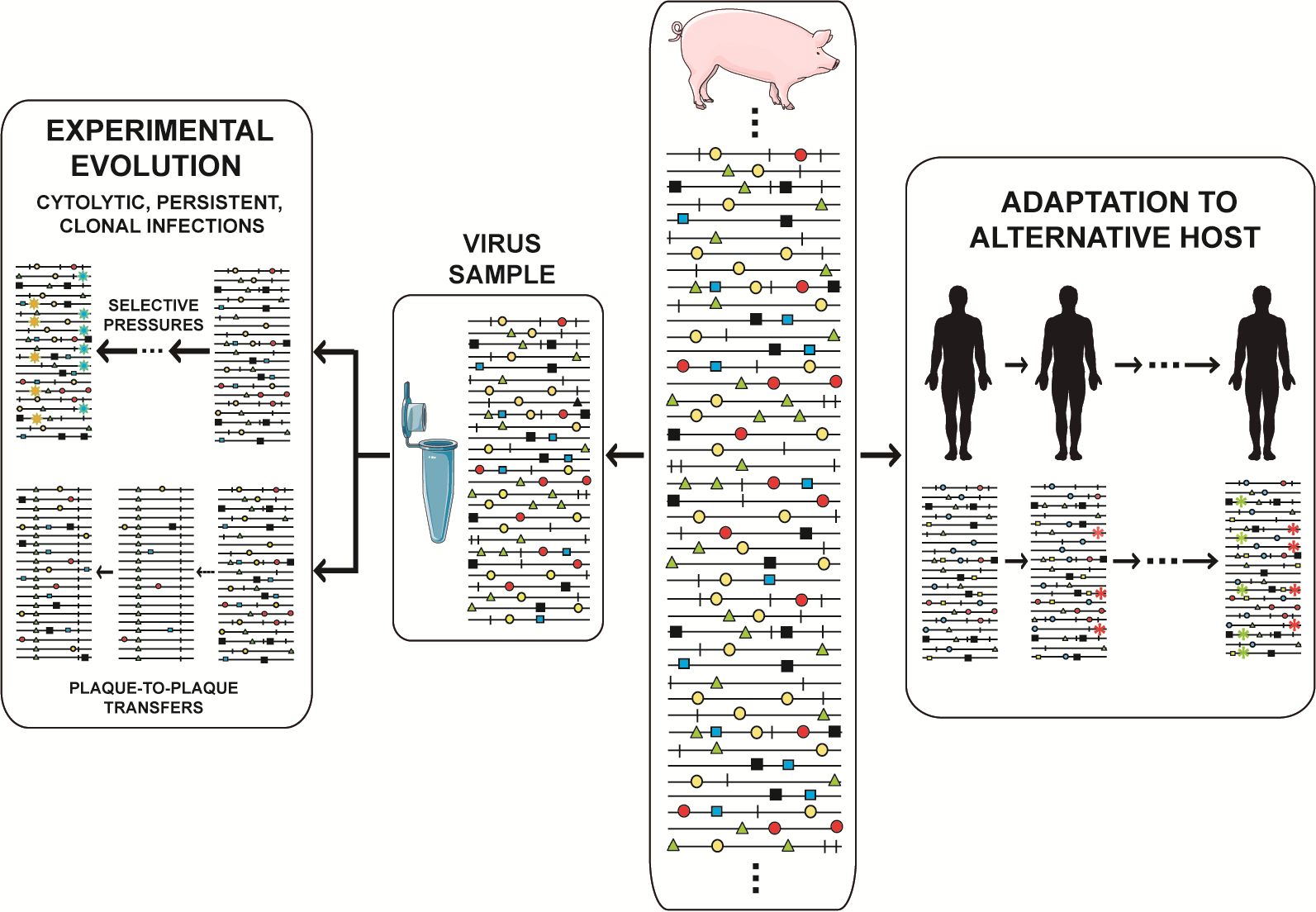 Scope of viral population dynamics. (A) Upon isolation from an infected host, a virus sample may (a) be adapted to cultured cells and subjected to large population or bottleneck transfers, (b) used for isolation for biological clones for further analysis, or (c) be adapted to a different host in vivo. (B) A quasispecies view of the events displayed in (A), following the type of representation depicted in Figure 1. Relevant adaptive mutations are highlighted with colored symbols. Figure adapted from[1], with permission from the American Society for Microbiology, Washington DC, USA.